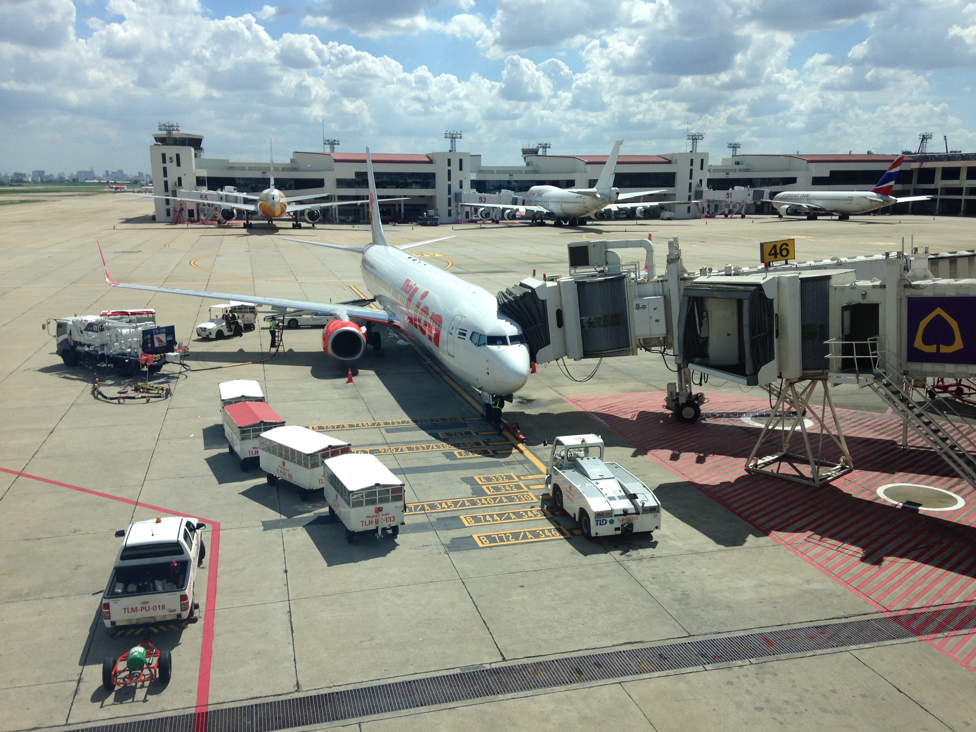 Thai Lion Air Flight SL 8538 reg.HS-LTO